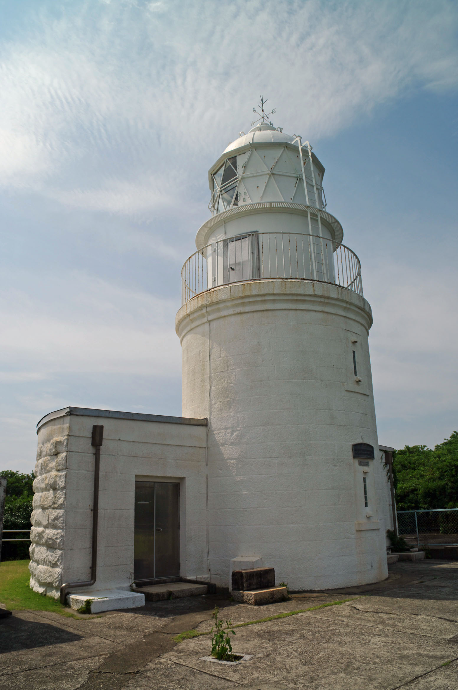 Tomogashima lighthouse, Wakayama city, Wakayama prefecture, Japan